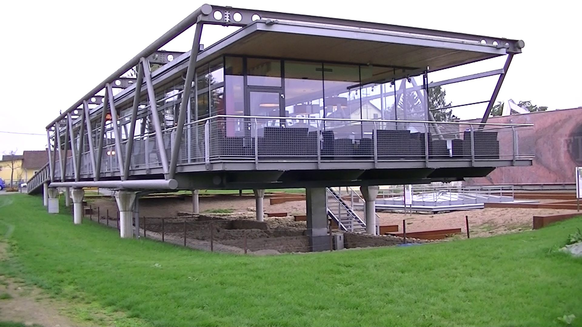 Flavia Solva - Ice cafe on Roman excavations